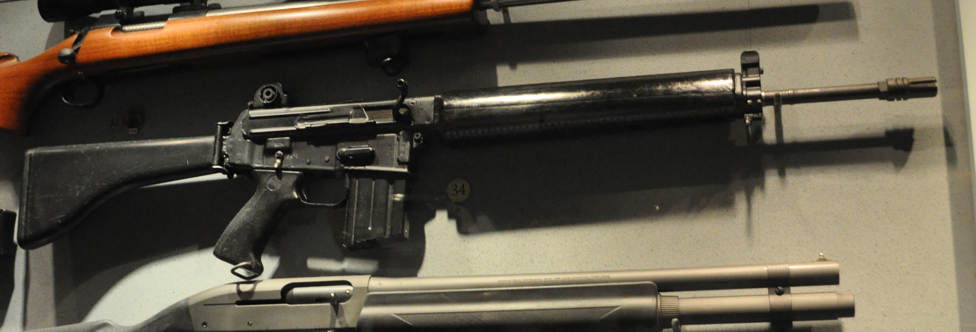 A Sterling armament AR-180 on display at the National Firearm Museum.